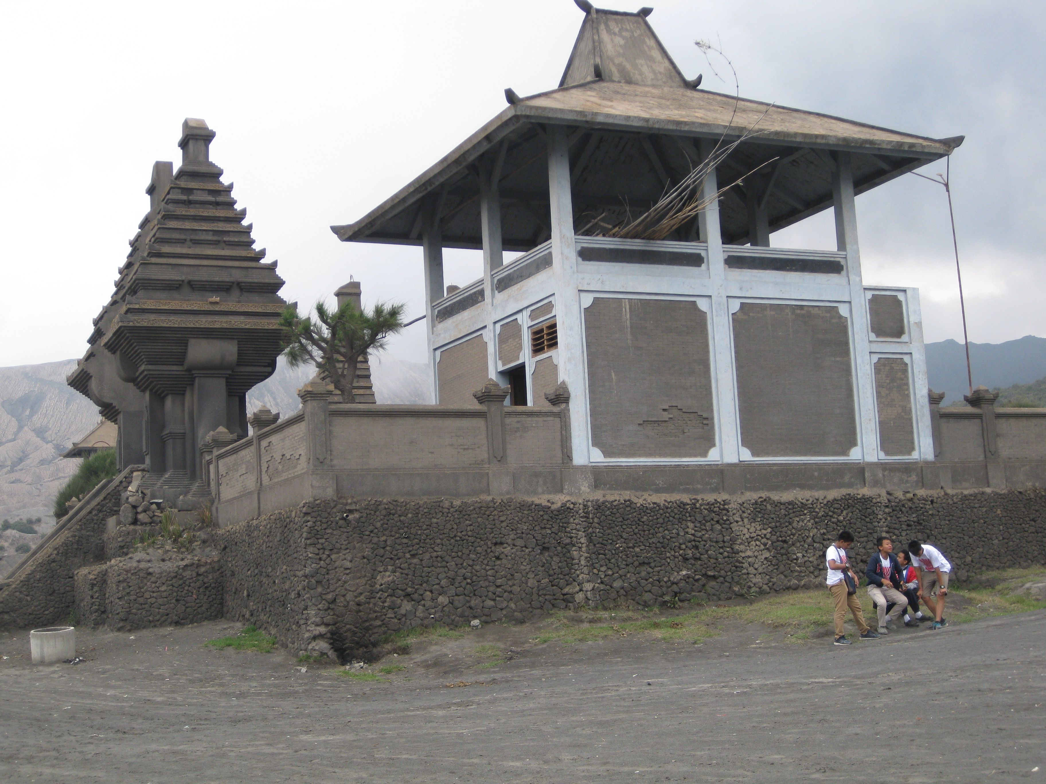 A picture of Pura Luhur Poten in Bromo Mountain.